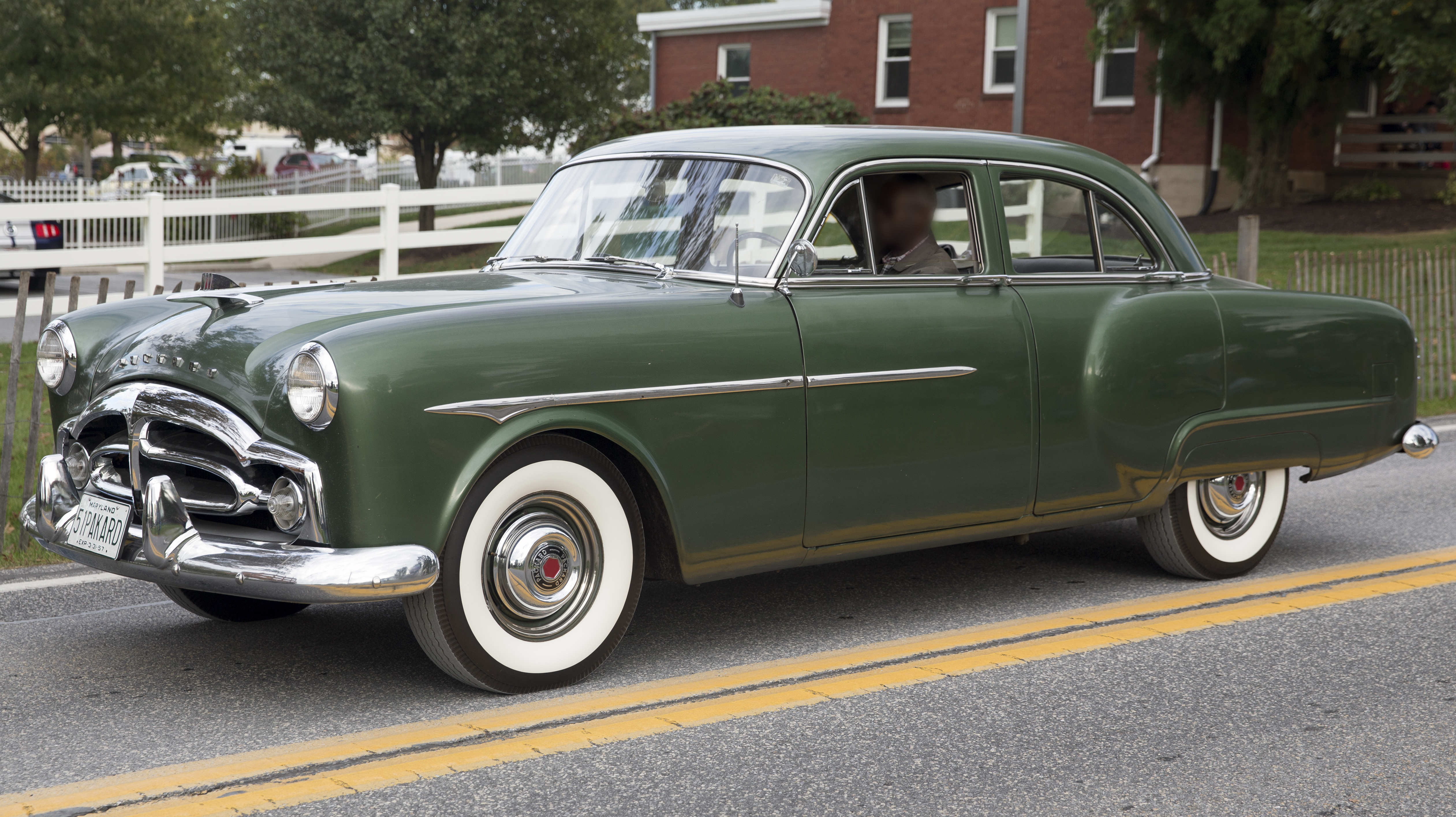 A 1951 Packard 200 Deluxe 4-door Sedan leaving the show area at Hershey 2019. The Deluxe can be recognized by its turn signals and chrome wheel rings; obviously these are easily retrofitted. Series 2401, body type 2462.